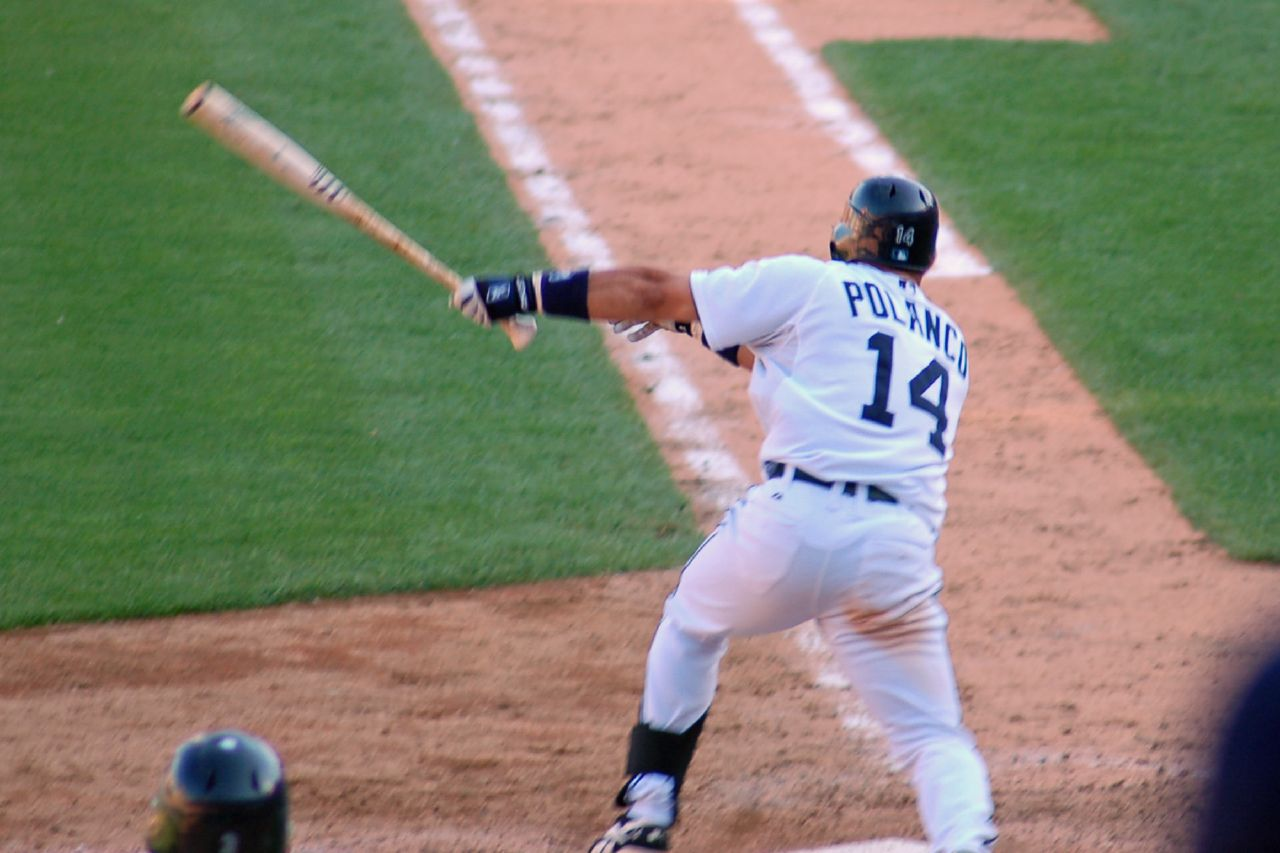 you can even see his little grimace in the stands!